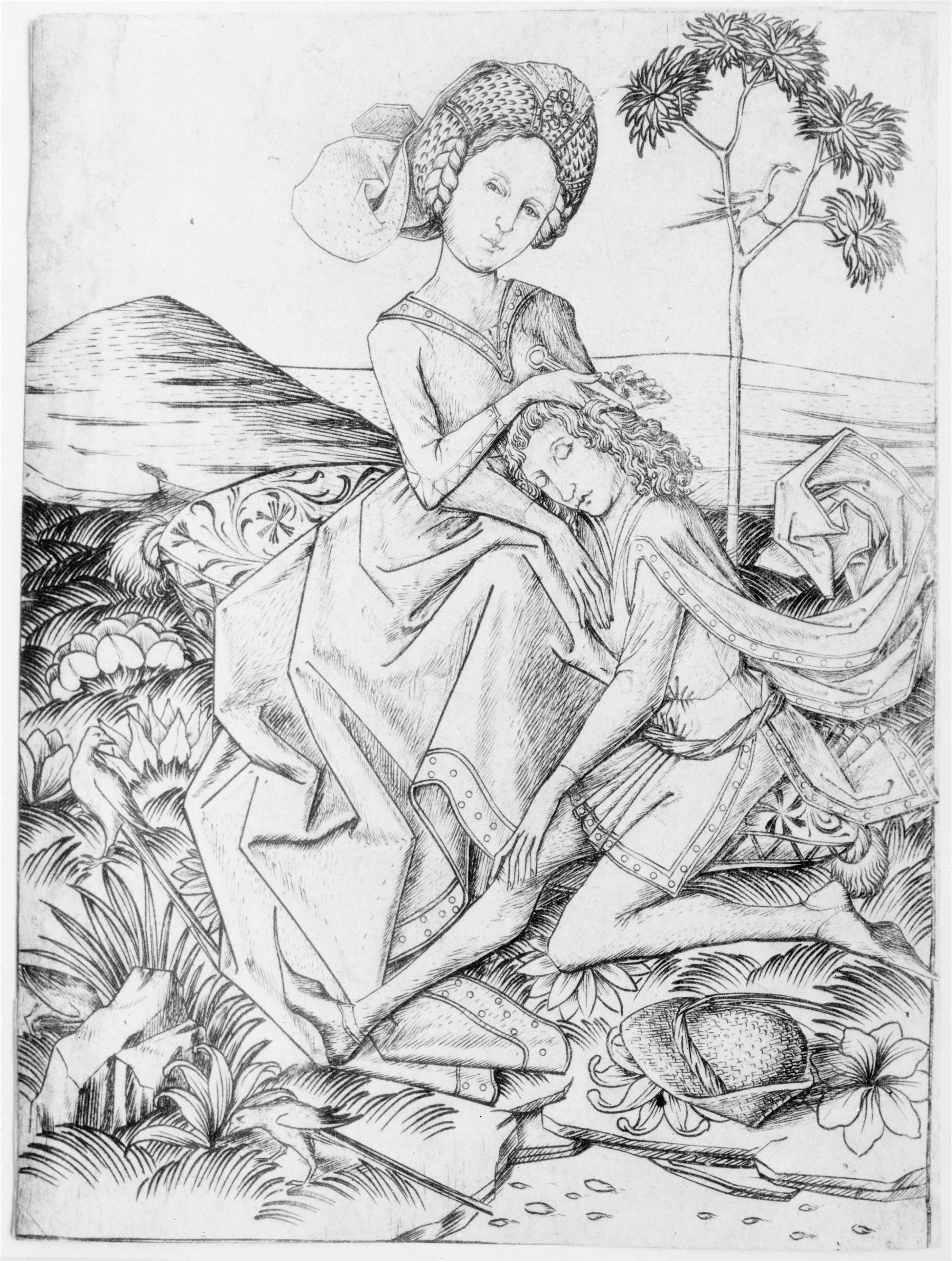 Print; Prints